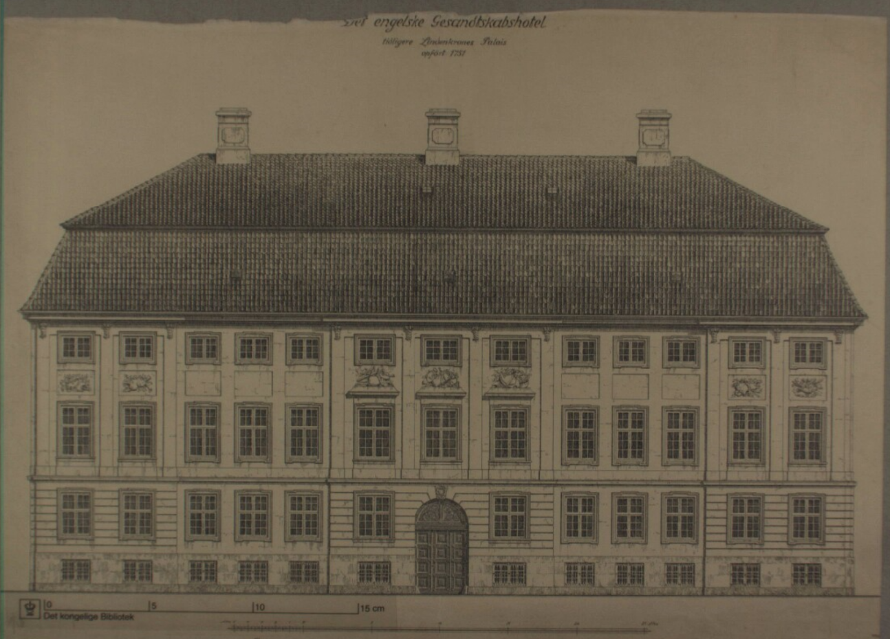 Lindencrone Mansion prior to alterations in Copenhagen, Denmark